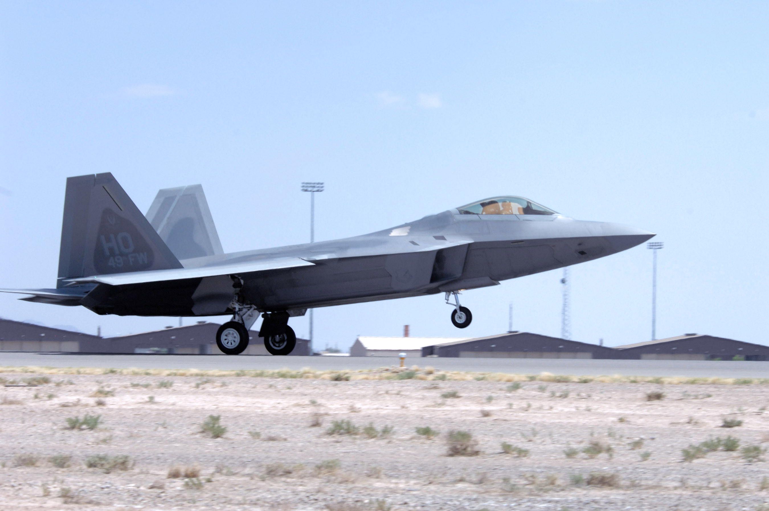 An F-22 Raptor flown by Col. Jeff Harrigian arrives June 2 at Holloman Air Force Base, N.M., June 2. Holloman AFB is one of four bases the F-22s will be assigned at. Prior to landing, the jets flew over the Tularosa Basin, giving community members a chance to see the new aircraft.